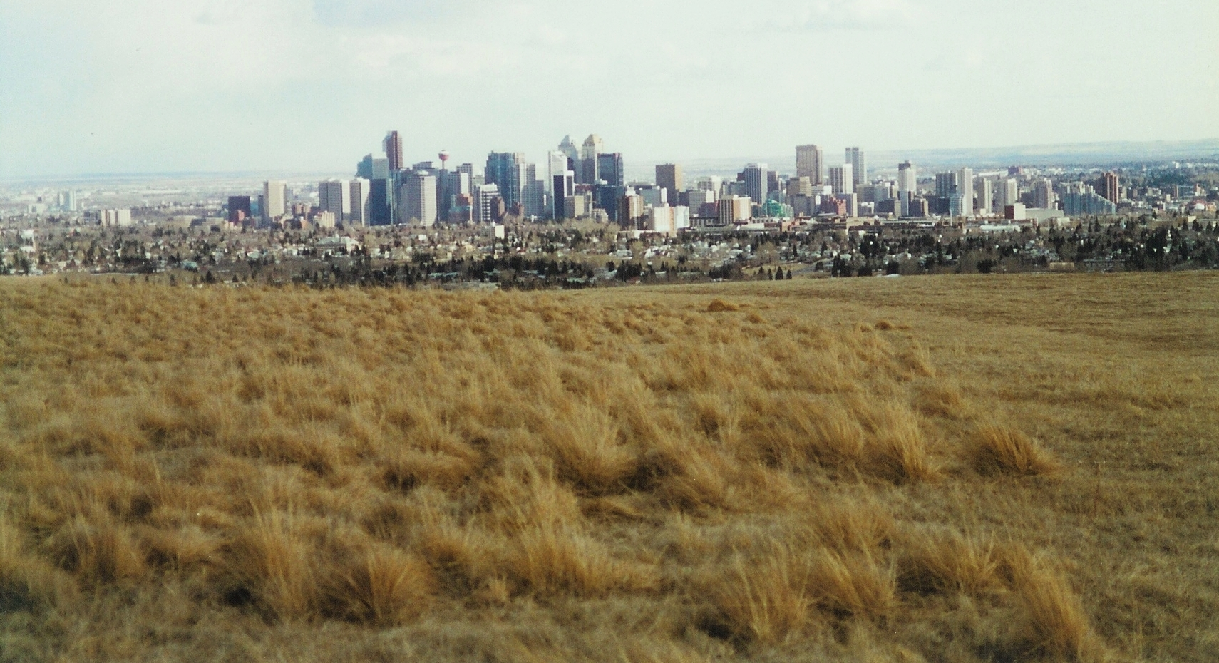 View of downtown Calgary, Alberta, Canada, from Nose Hill park